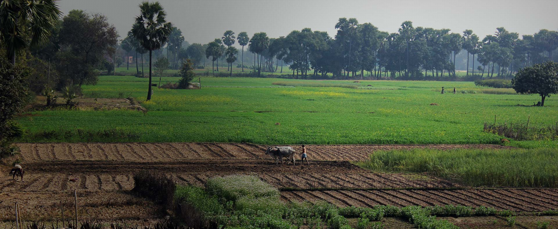 delhua village